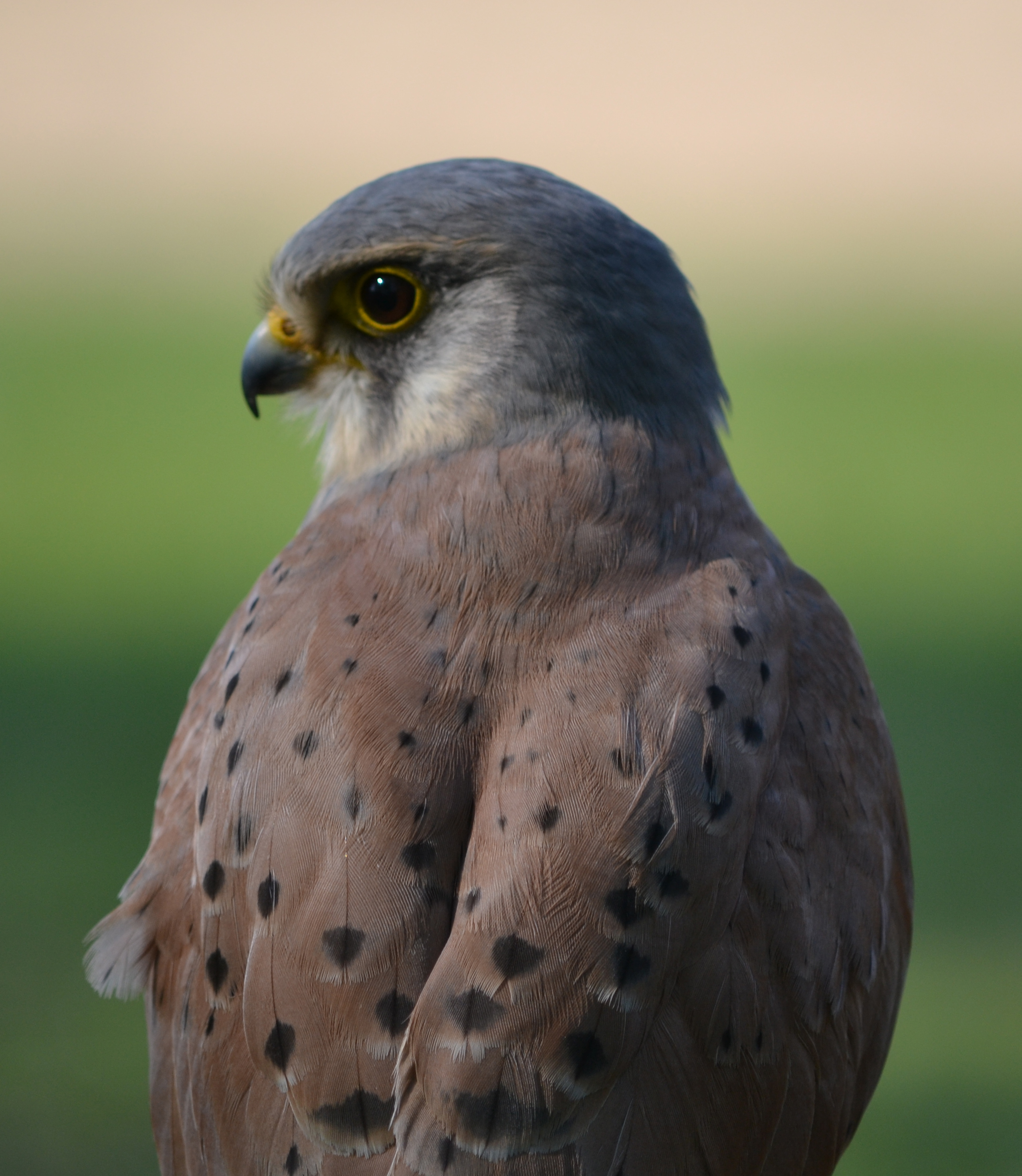 The Common Kestrel (Falco tinnunculus) is a bird of prey species belonging to the kestrel group of the falcon family Falconidae. It is also known as the European Kestrel, Eurasian Kestrel, or Old World Kestrel. In Britain, where no other brown falcon occurs, it is generally just called "the kestrel".